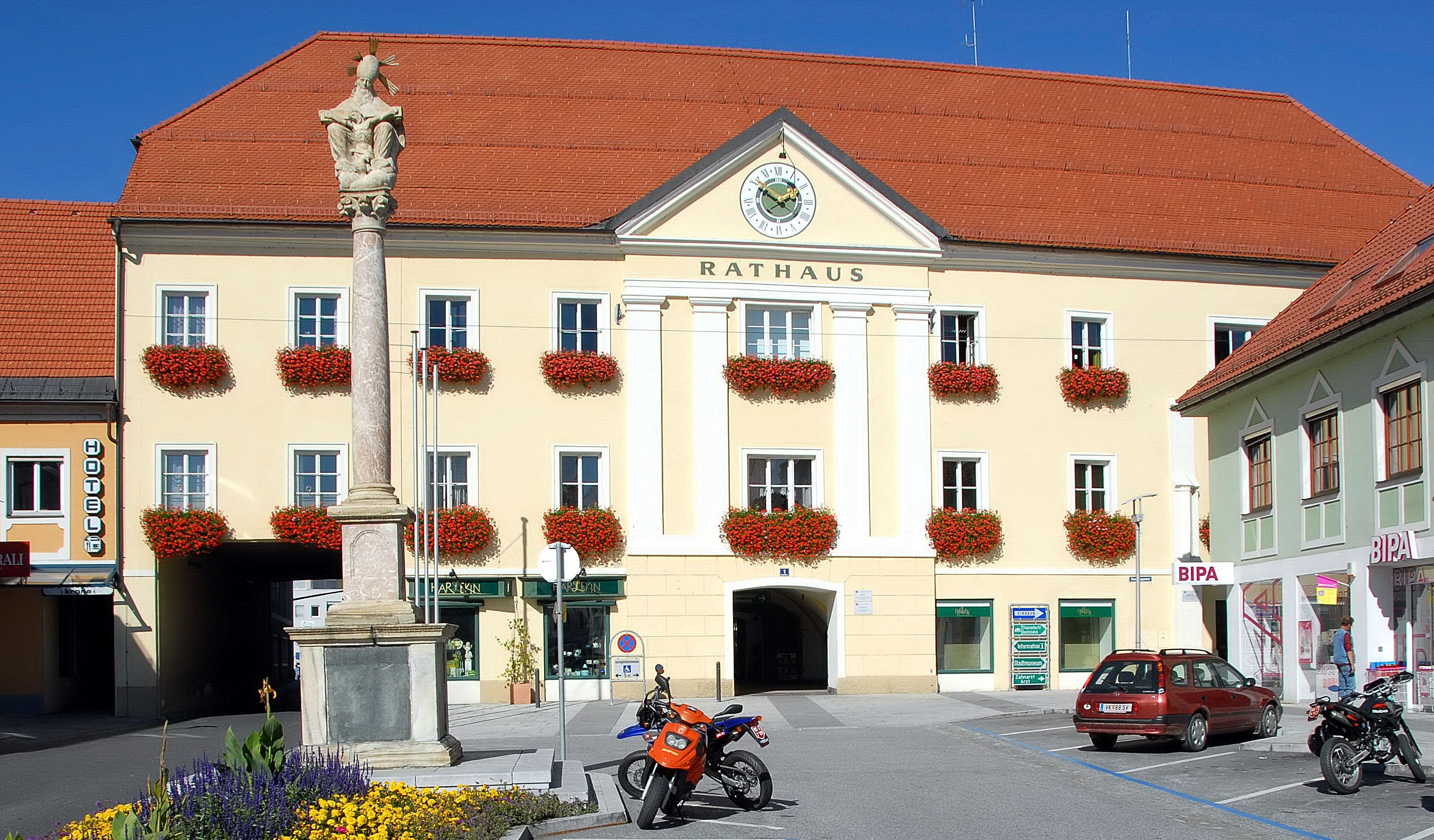 Town hall (formerly Duke´s castle) on main square #1, municipality Voelkermarkt, district Voelkermarkt, Carinthia, Austria, EU